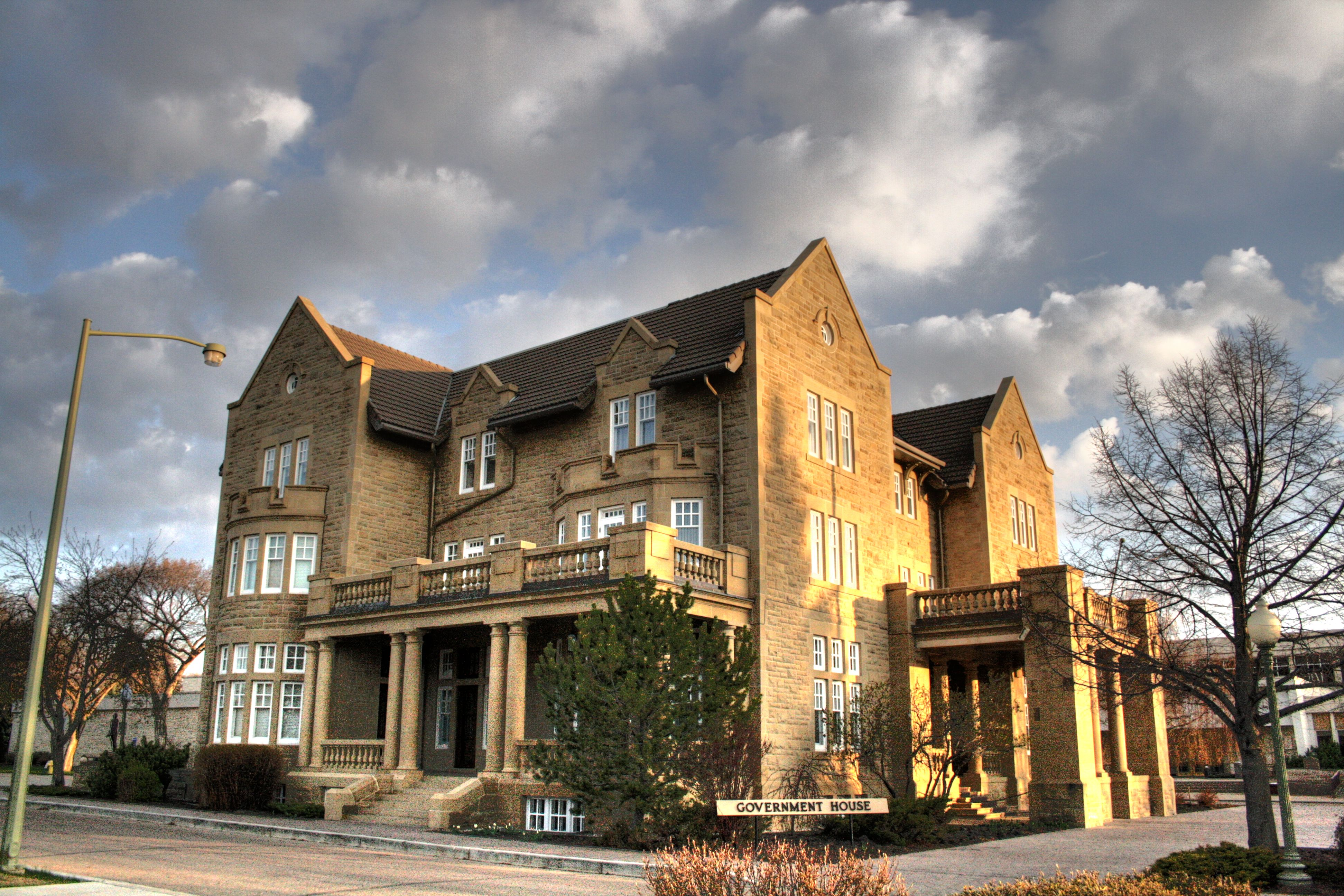 Government House, the ceremonial home of Alberta's Lieutenant Governor. As of 1964, its grounds host the Royal Alberta Museum in Edmonton, Alberta, Canada.